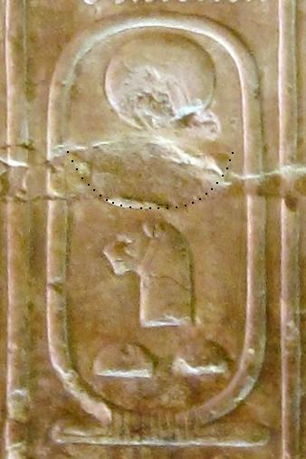 Cartouche 66, Abydos King List. Temple of Seti I, Abydos, Egypt